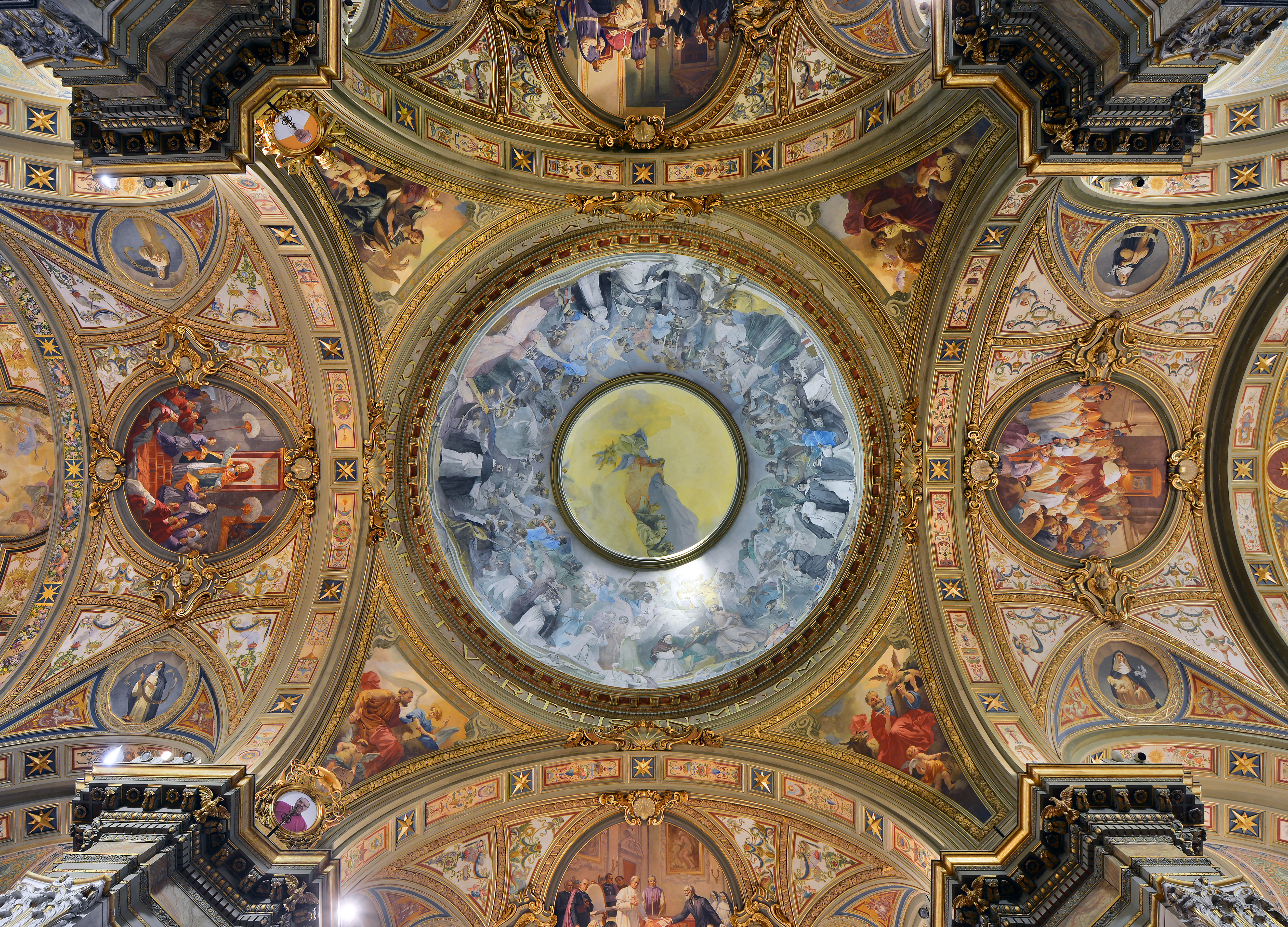 Beata Vergine del Rosario (Pompei) - Dome Interior